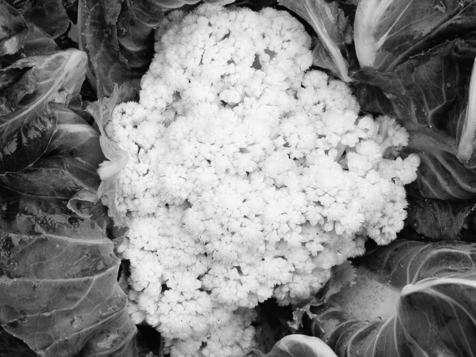 Цветную капусту